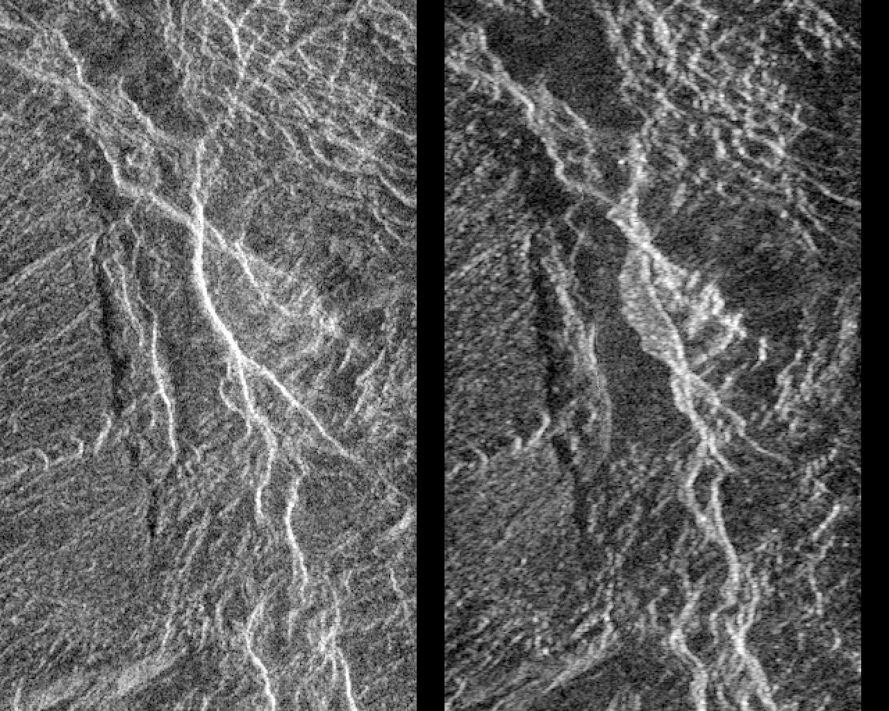 Landslides on Venus! The image on the left was taken in late November of 1990 during Magellan's first trip around Venus. The image on the right was taken July 23, as the Magellan spacecraft passed over the region for the second time. Each image is 24 kilometers (14.4 miles) across and 38 kilometers (23 miles) long, and is centered at 2 degrees south latitude and 74 degrees east longitude. This pair of Magellan images shows a region in Aphrodite Terra, within a steeply sloping valley that is cut by many fractures. In the center of the image on the right, a bright, flow-like area can be seen extending to the west (left) of a bright fracture. The bright, rough area has appeared and the fracture has changed position in the 8 months since the first image was made. A 'Venusquake' may have occurred, producing a new scarp and causing a landslide (the bright area) to form. This is the first evidence of active tectonics occurring on other planets in the solar system. Resolution of the Magellan data is 120 meters (400 feet).